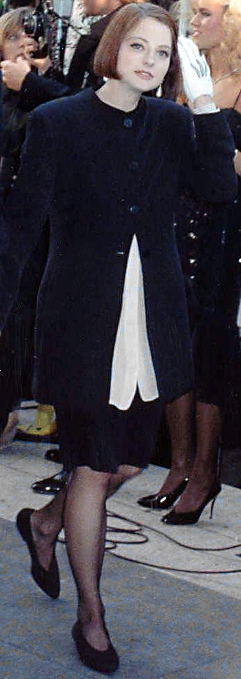 Photo taken at the 62nd Academy Awards 3/26/90 - Permission granted to copy, publish or post but please credit "photo by Alan Light" if you can